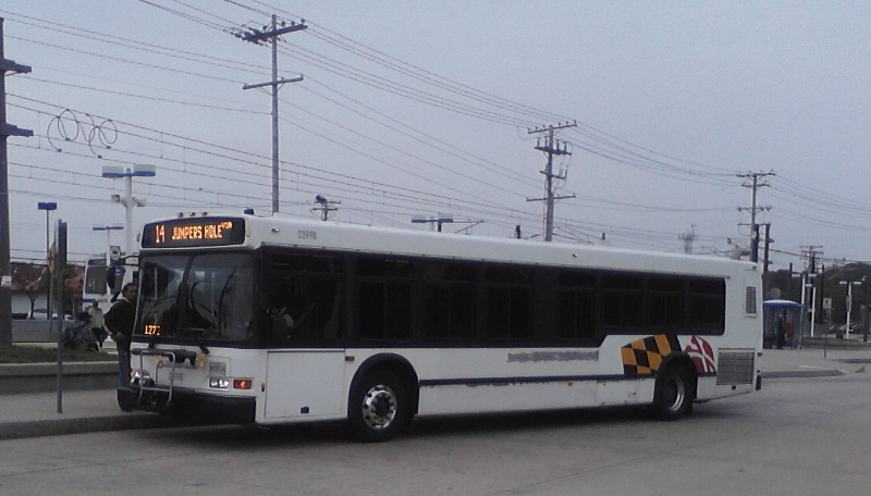 MTA Maryland Neoplan #0299 at Cromwell Station.